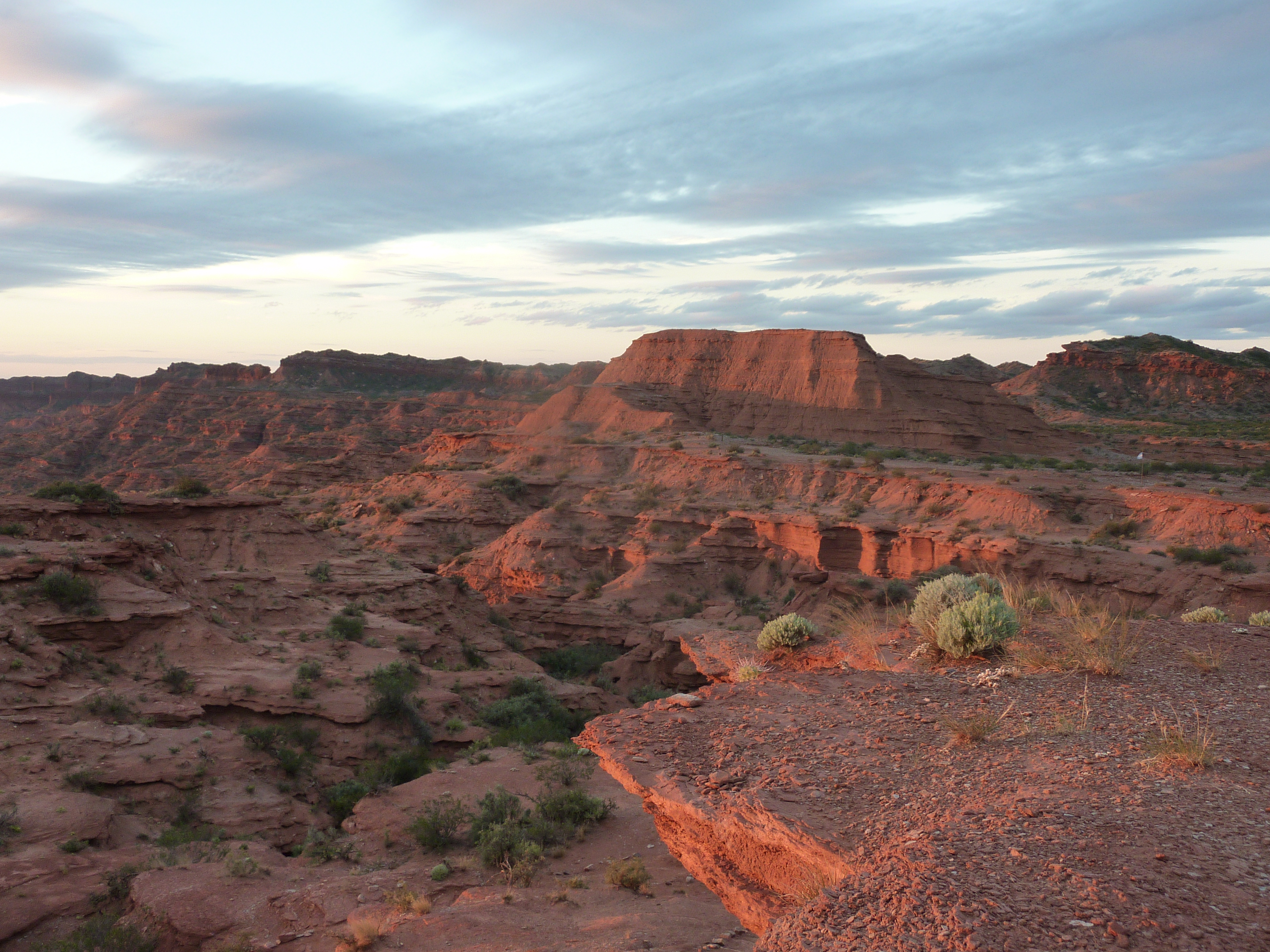 We got a bit over excited at sunset